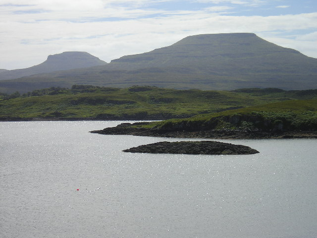 Uiginish, Skye. Beyond the small island is the island of Gairbh Eilein, and beyond that the peninsula of Uiginish (main subject of the picture). In the distance are the Macleod's Tables. The plateau summit of the nearer, Healabhal Mhor (469m) is in square NG2244, and of the more distant (and higher), Healabhal Bheag (489m) is in square NG2242.